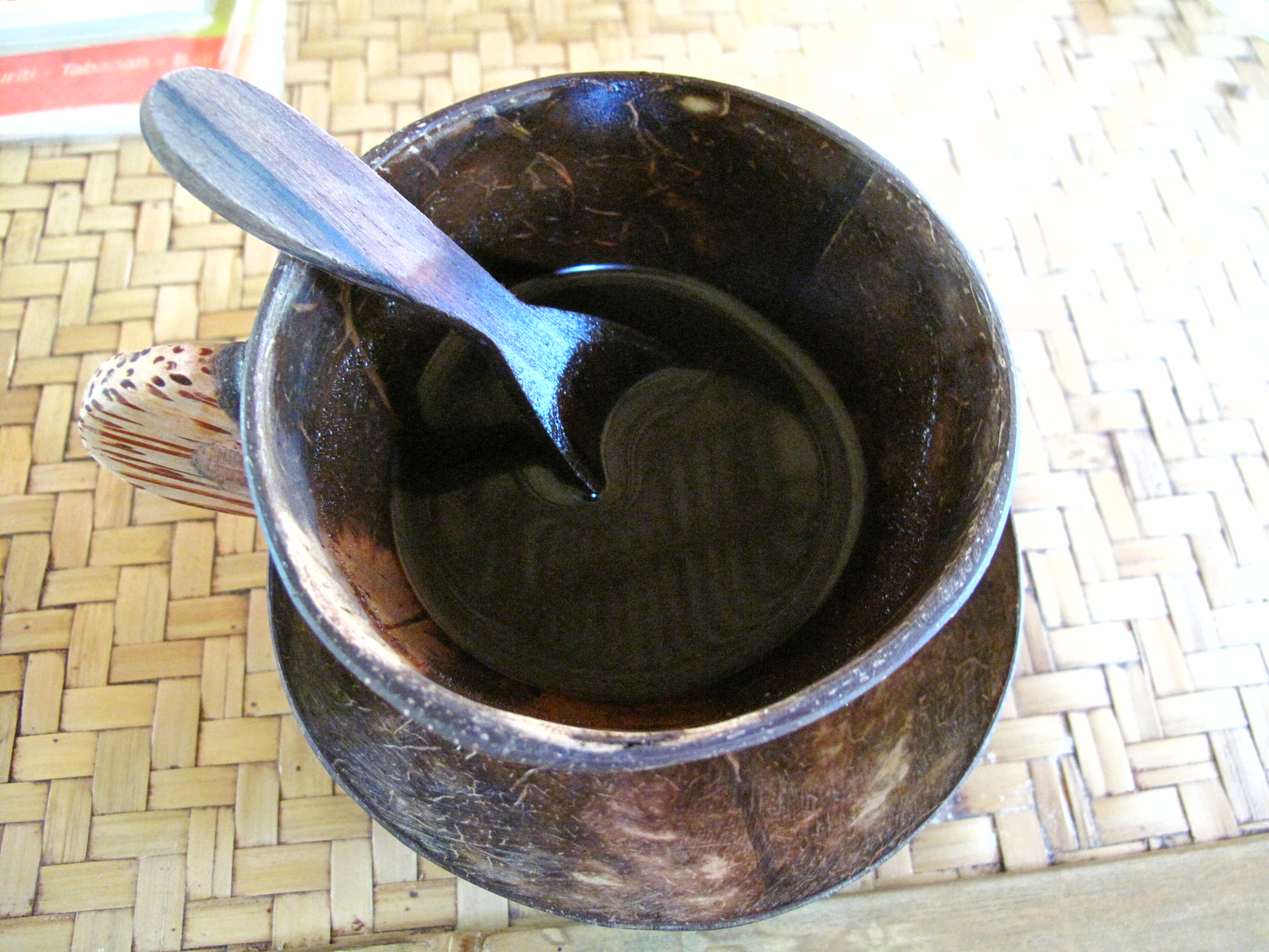 A strong cup of Balinese coffee in the highlands